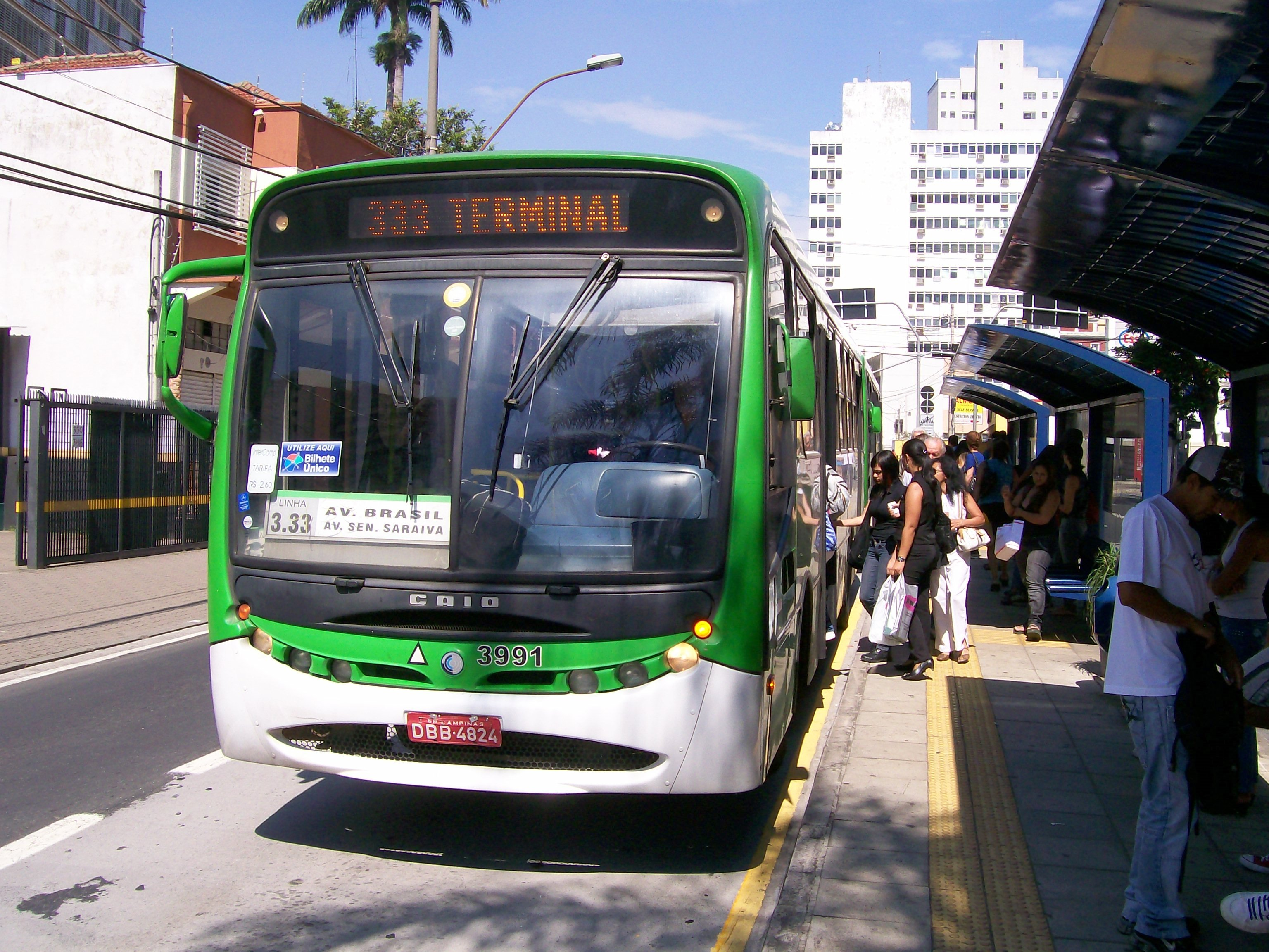 People getting on the bus by its left side. Campinas, Brazil. CAIO bus (reg. DBB-4824, #3991) with Mercedes-Benz OF-1722 chassis.